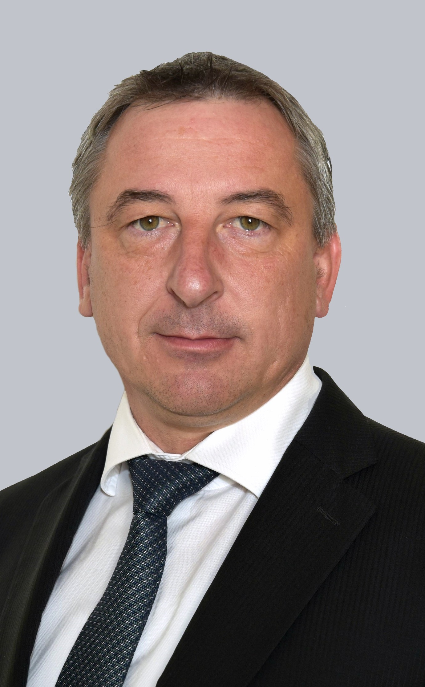 Predrag Štromar, Minister of Construction and Spatial Planning